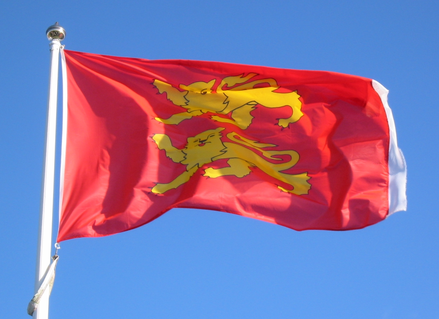 Flags of Normandy Photo taken by Man vyi with Canon PowerShot A40 on 8/2/2004